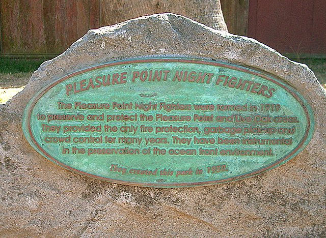 Pleasure Point Night FighPleasure point 01:45, 15 October 2007 (UTC)ter Park plaque, history and acknowledgment.